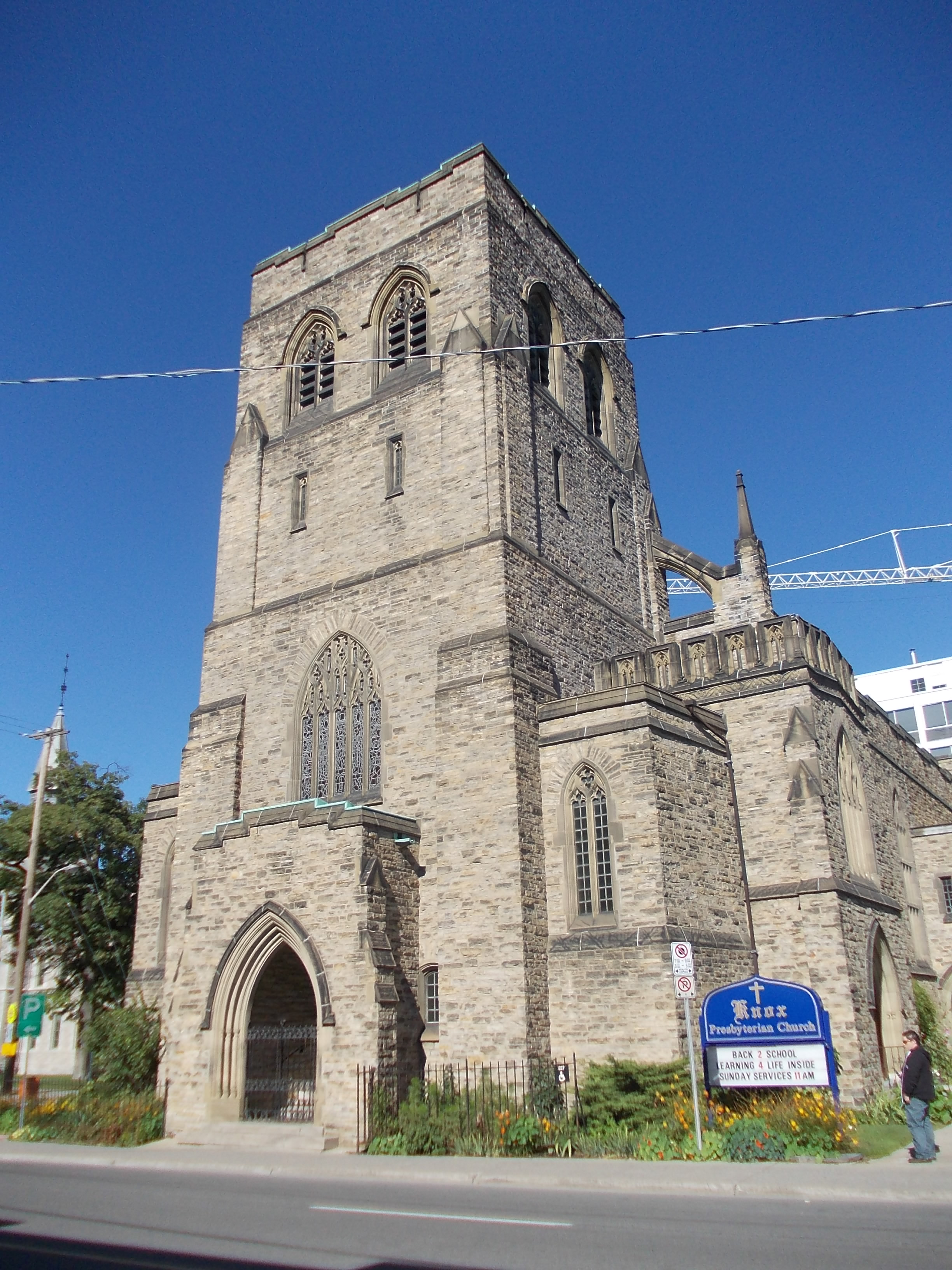 Knox Presbyterian Church in Ottawa